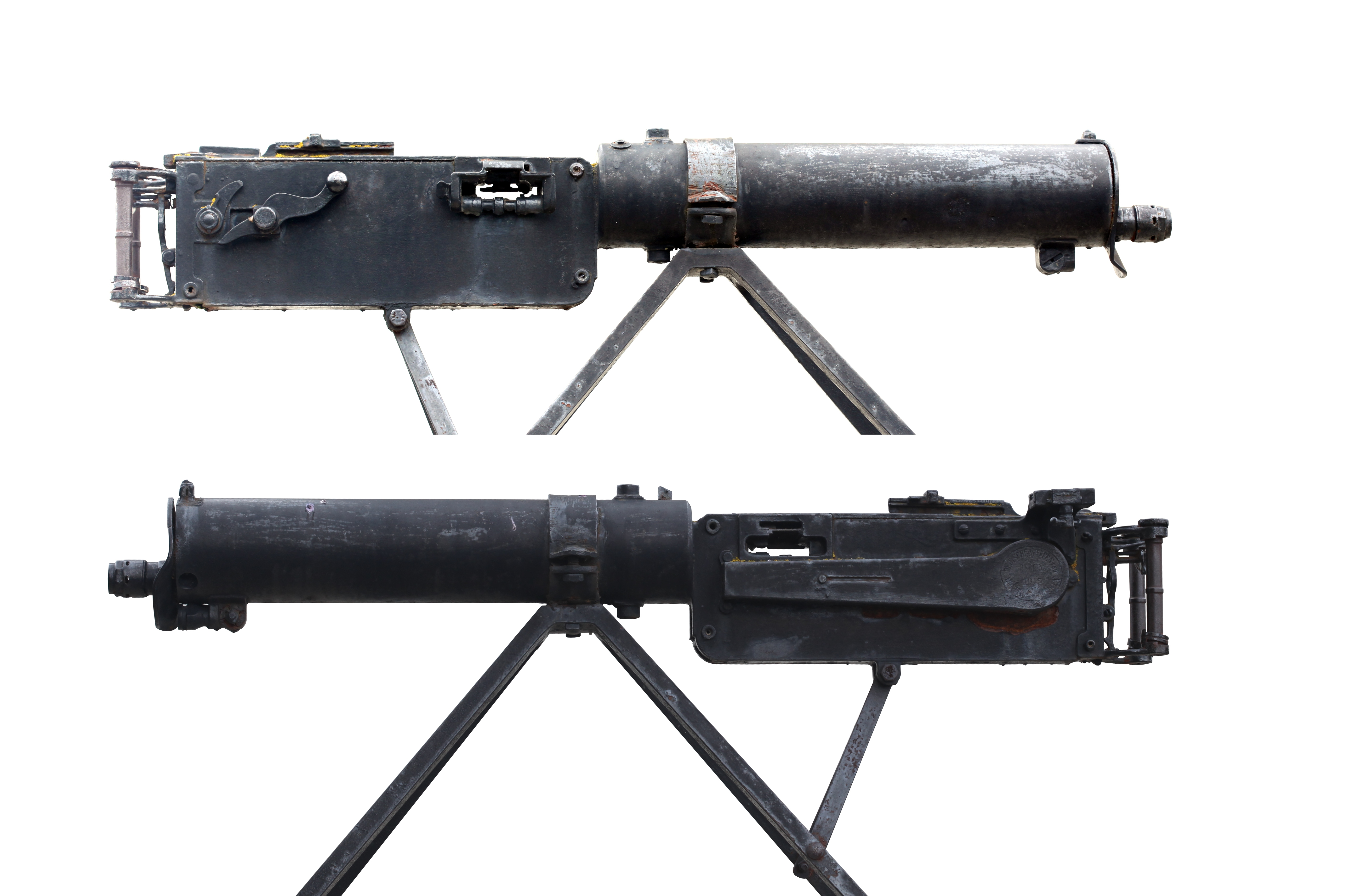 MG 08 Maxim machine gun, Berlin, 1915. On display at Solignac-sur-Loire memorial of the First World War. View of two different weapons.